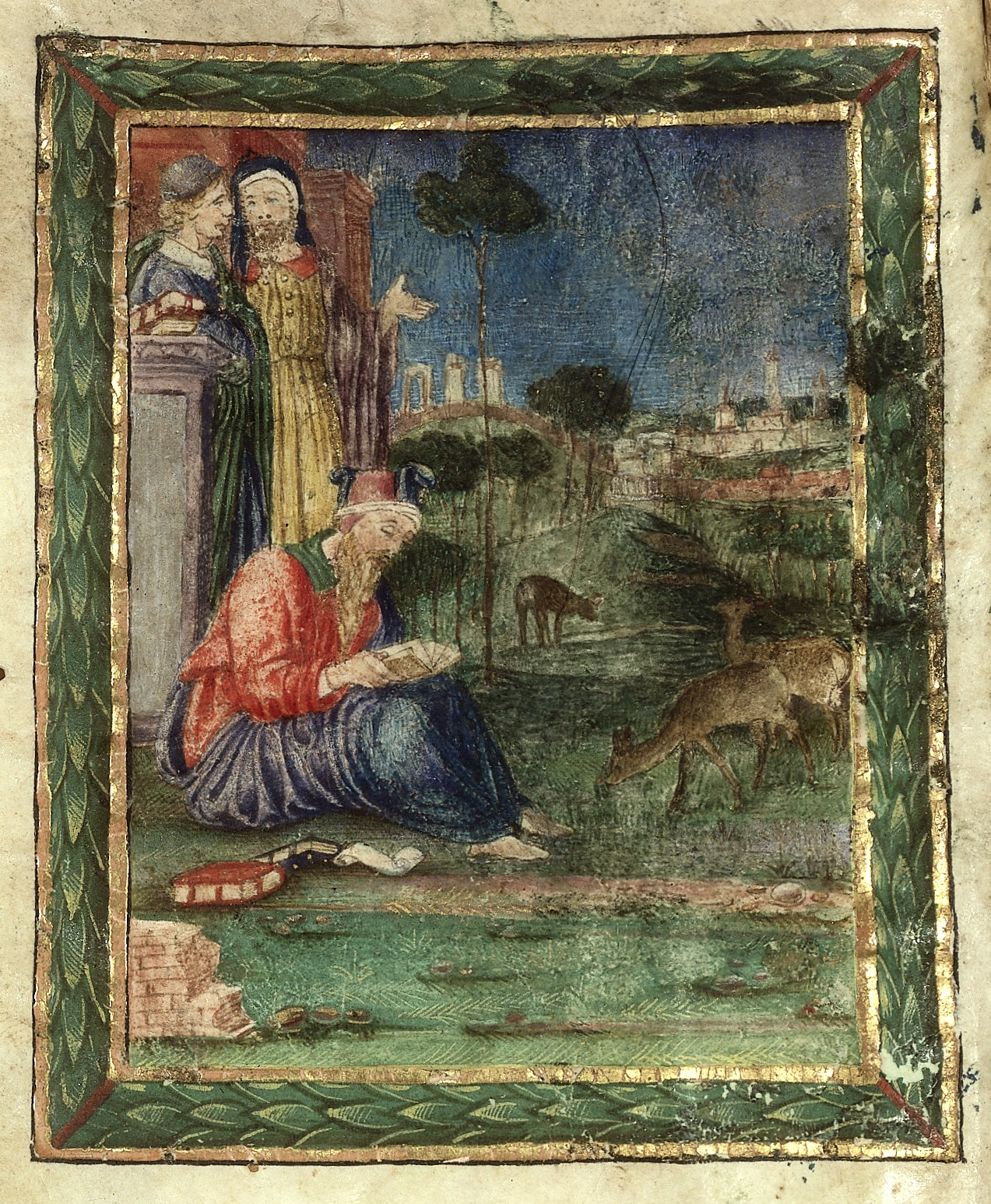 Miniature painting, portrait of Hippocrates sitting, reading. Behind, two standing philosophers dispute. Opening illustration from a late fifteenth century manuscript of the Aphorisms in Latin translation. Archives & Manuscripts Keywords: hippocrates {460-375 b.c.}; Philosophers; Medicine; Reading; Portraits; Manuscripts; Hippocrates